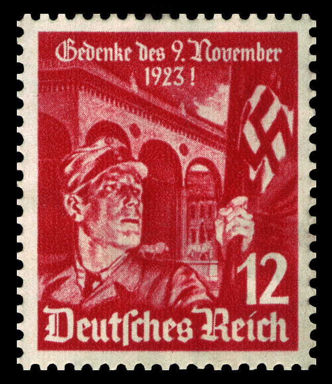 Beer Hall Putsch Ausgabepreis: 12 Pfennig First Day of Issue / Erstausgabetag: 5. November 1935 Michel-Katalog-Nr: 599 (Deutsches Reich)